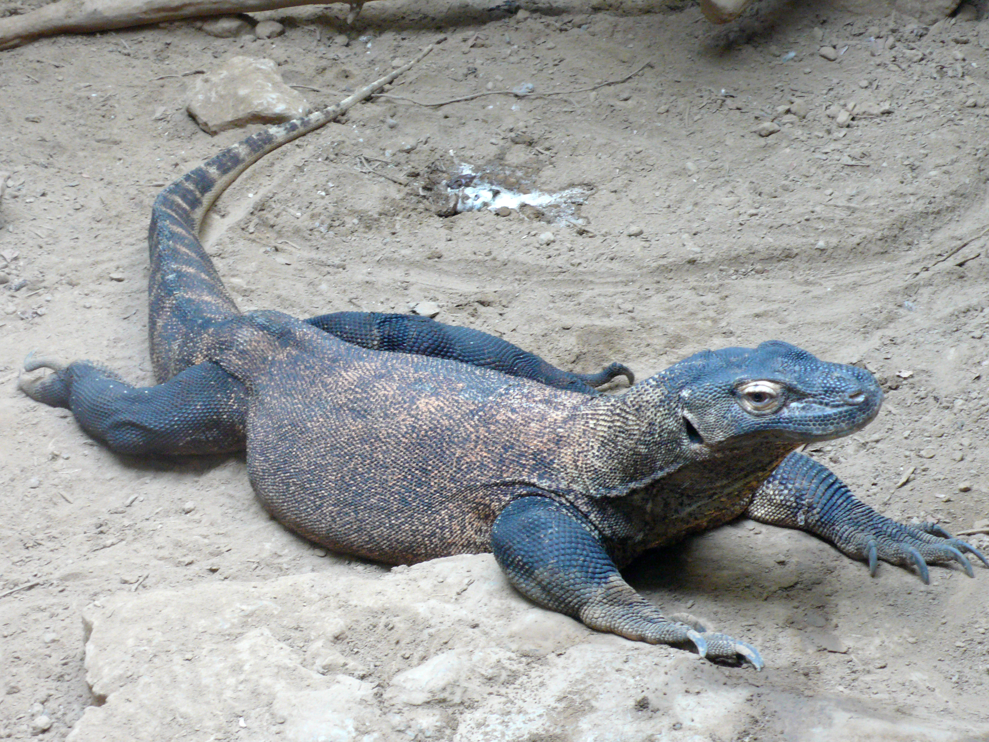 Komodo dragon (Varanus komodoensis)